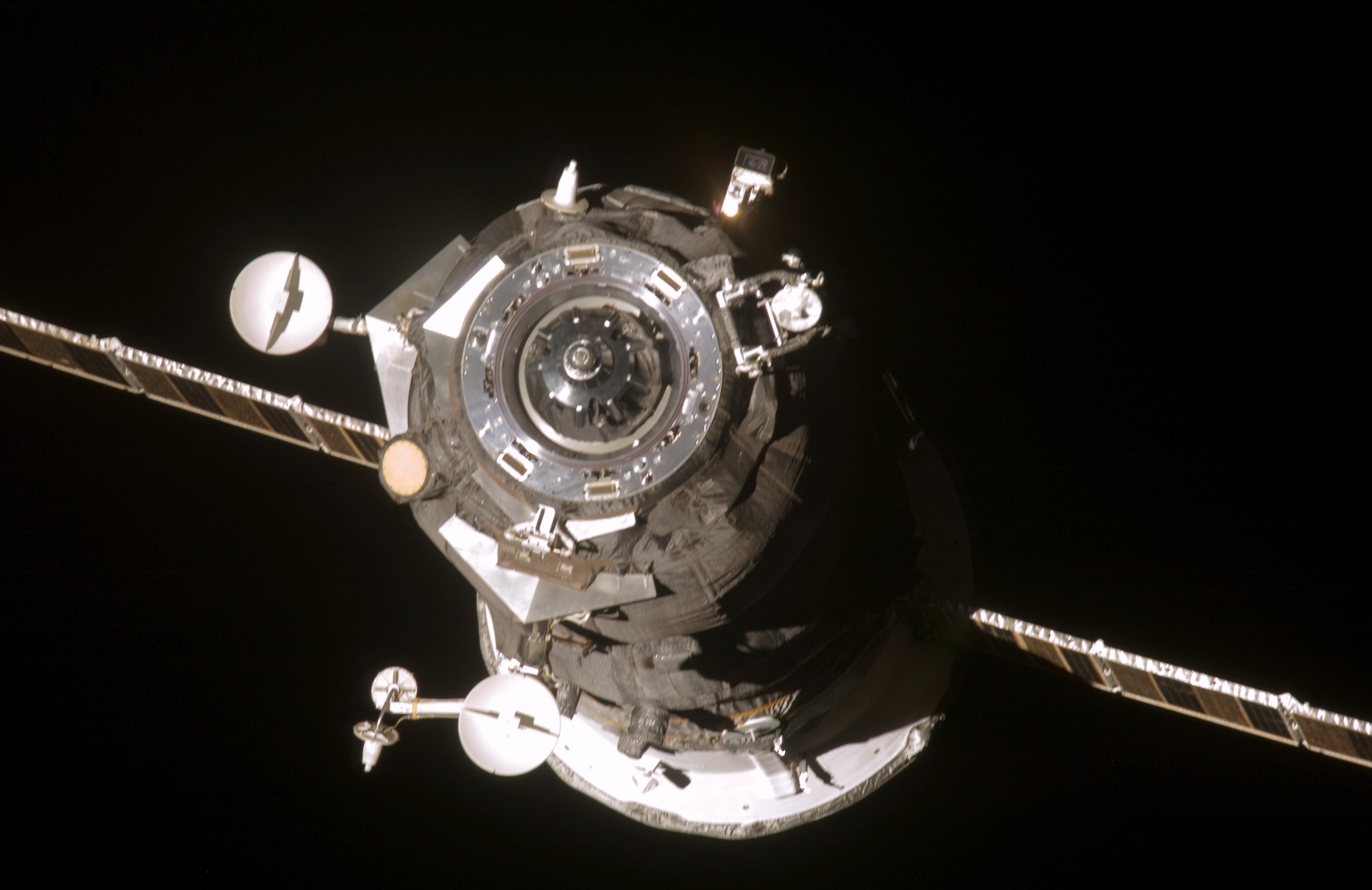 Backdropped by the blackness of space, an unpiloted Progress 23 supply vehicle departs from the Zvezda Service Module aft port of the International Space Station, carrying its load of trash and unneeded equipment to be deorbited and burned up in Earth's atmosphere